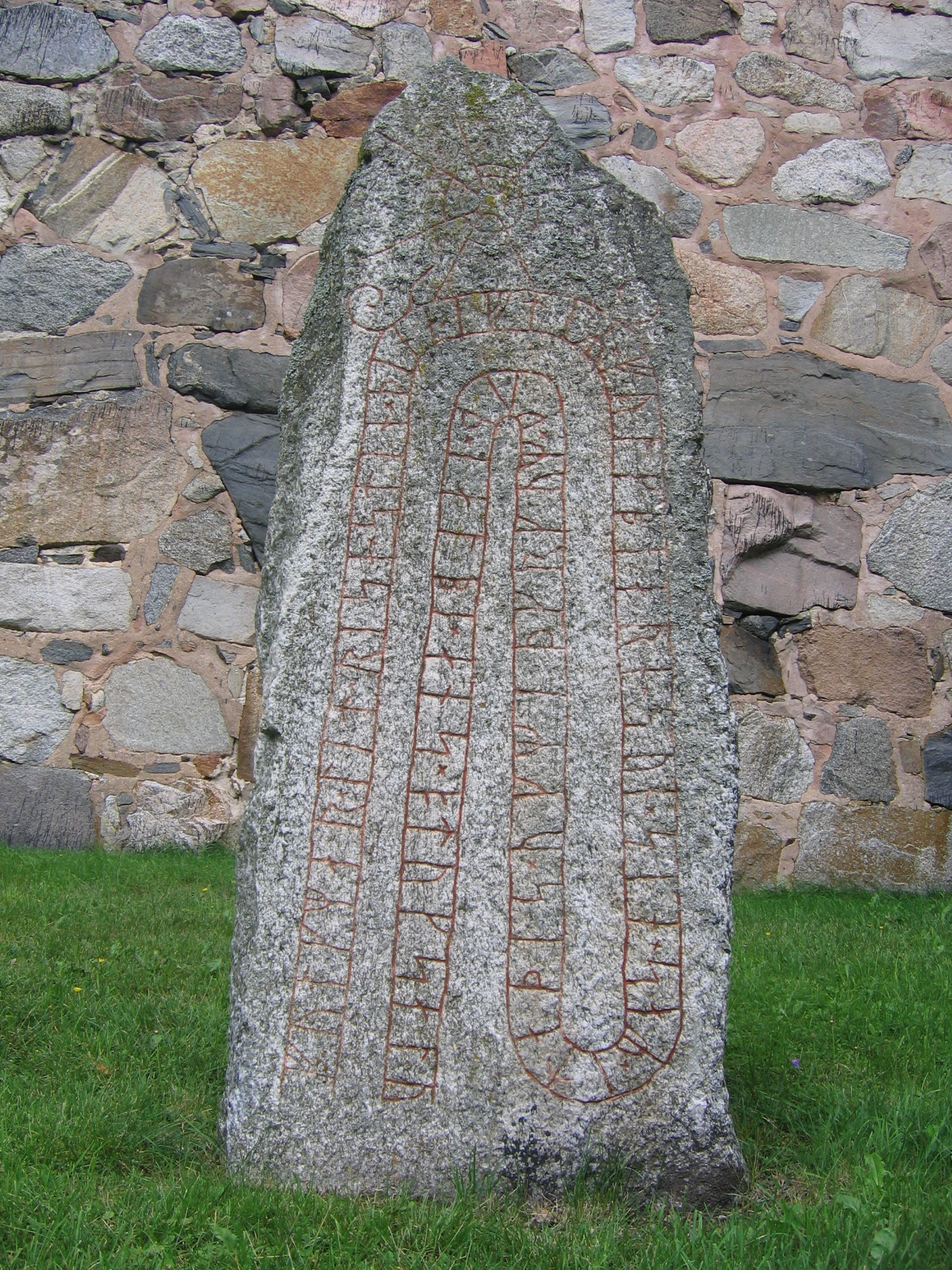 Runestone U 358, which is located in the cemetery of Skepptuna church in Uppland, Sweden.